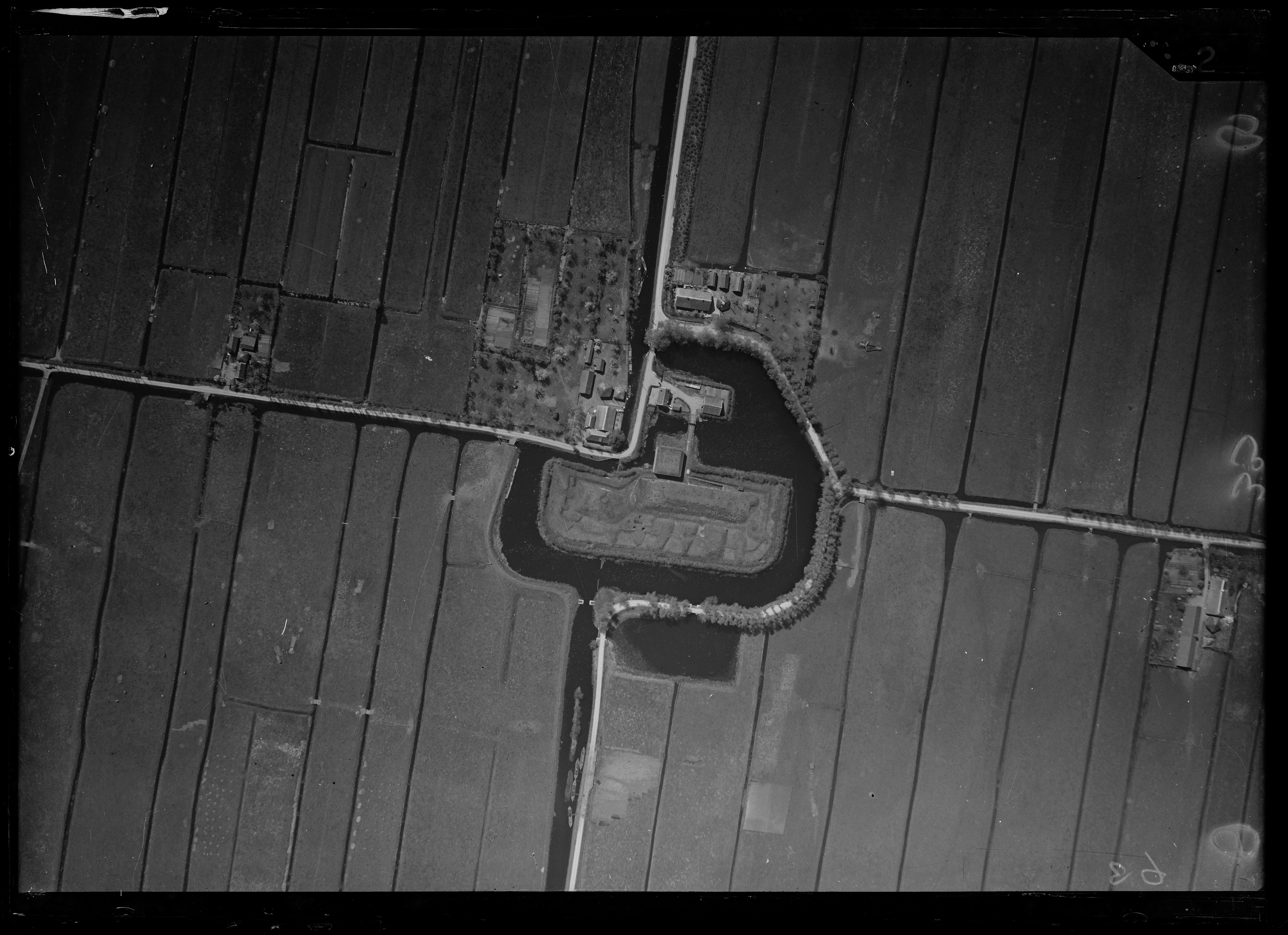 Aerial photograph of Gagel, The Netherlands